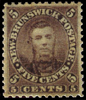 Five cent postage stamp of the colony of New Brunswick (now a province of Canada), featuring the image of Charles Connell (1810 – June 28, 1873). Cornell was a Canadian politician, now remembered mainly for placing his image on a postage stamp. In 1858, Connell was appointed Postmaster General of the colony, and in 1859 he chose to depict himself on the 5-cent stamp, instead of Queen Victoria. In an effort to stem the criticism and charges of extreme arrogance, he offered to buy up all the stamps and burned them publicly on the front lawn of his house. He also resigned his office as postmaster general. It is unknown how many stamps survived, but they number no more than a few dozen and are now extremely rare.